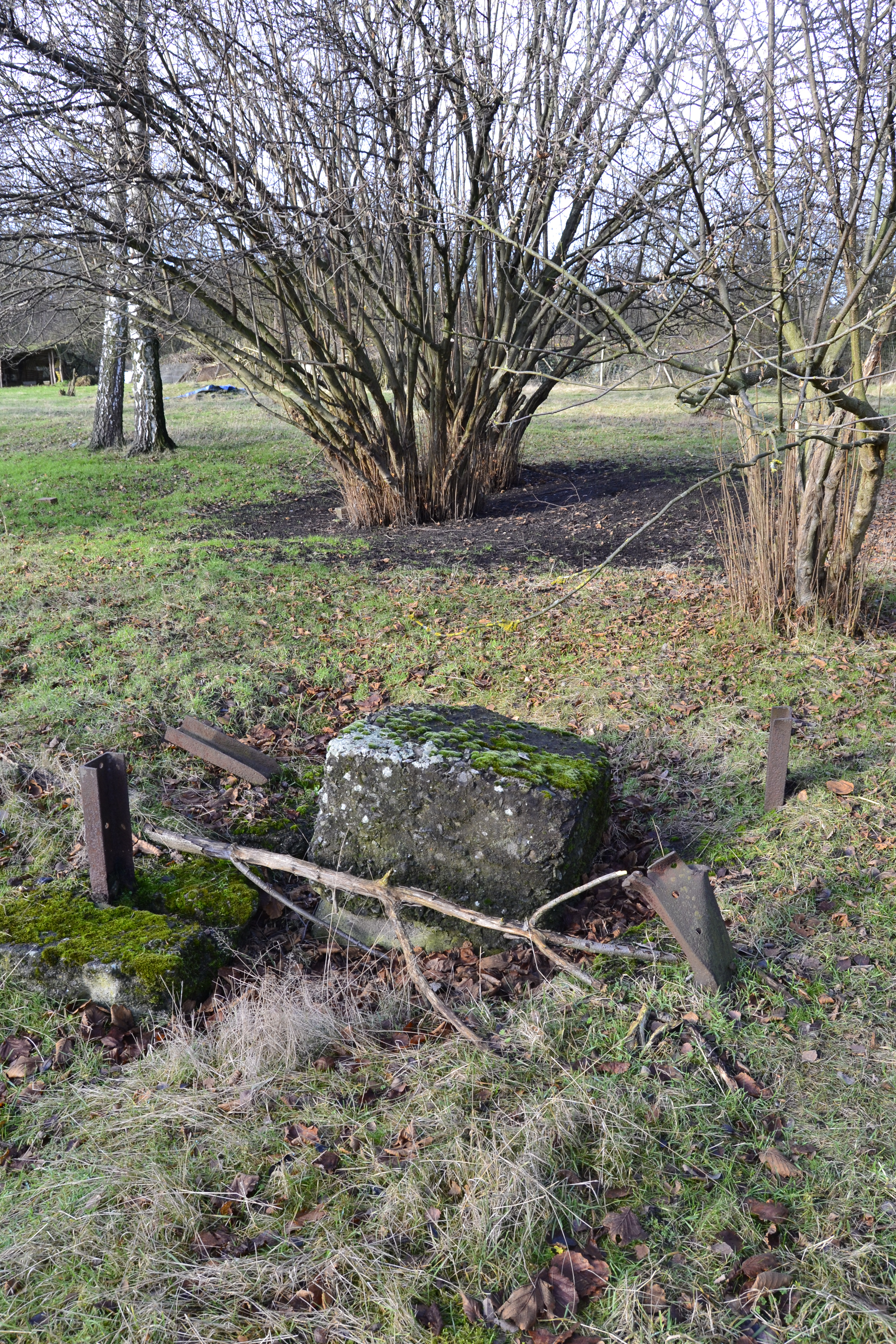 Ancient pit of the Milmort coal mine in Milmort, Belgium